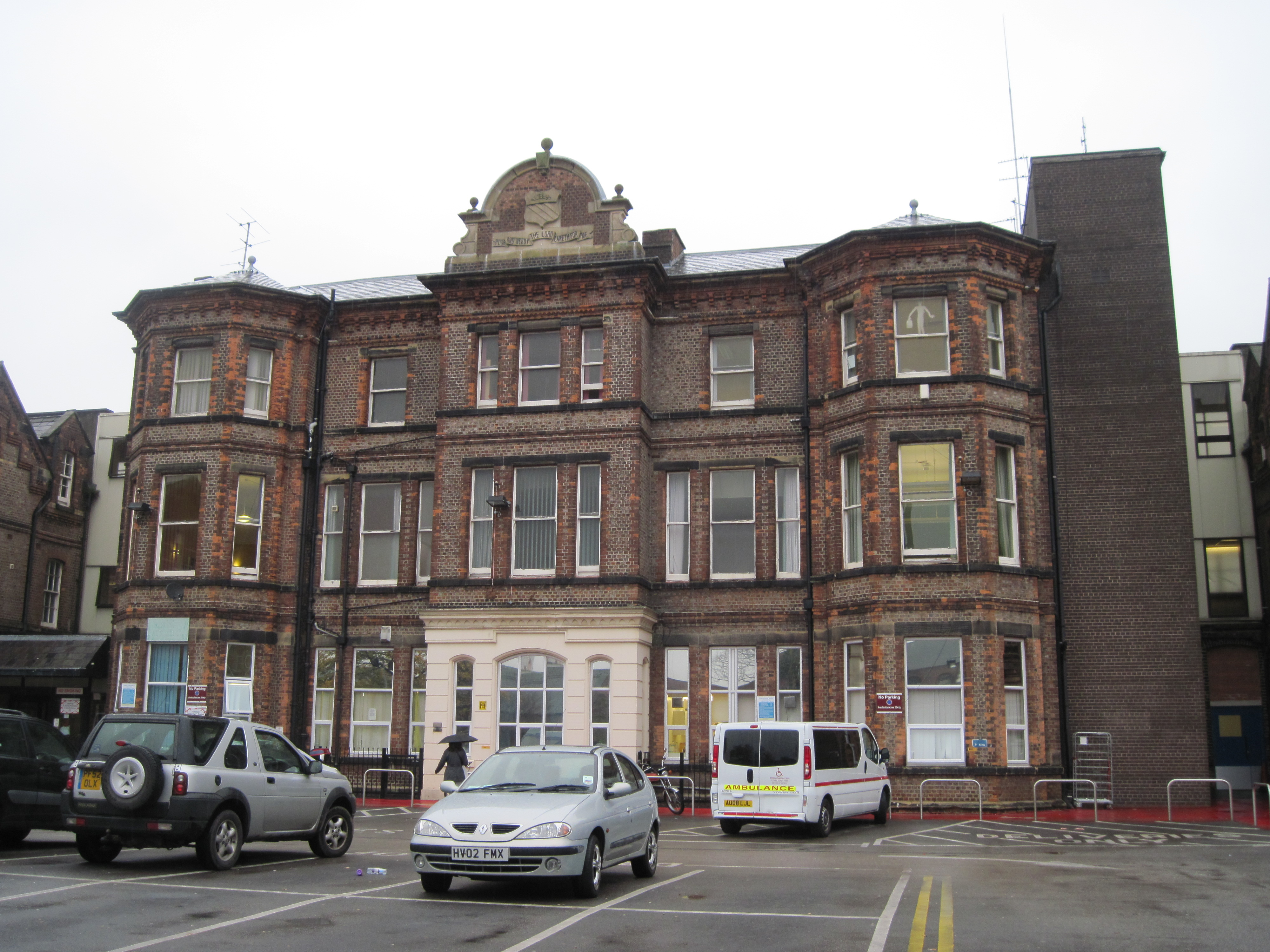 The Workhouse Infirmary, off Delaunays Road